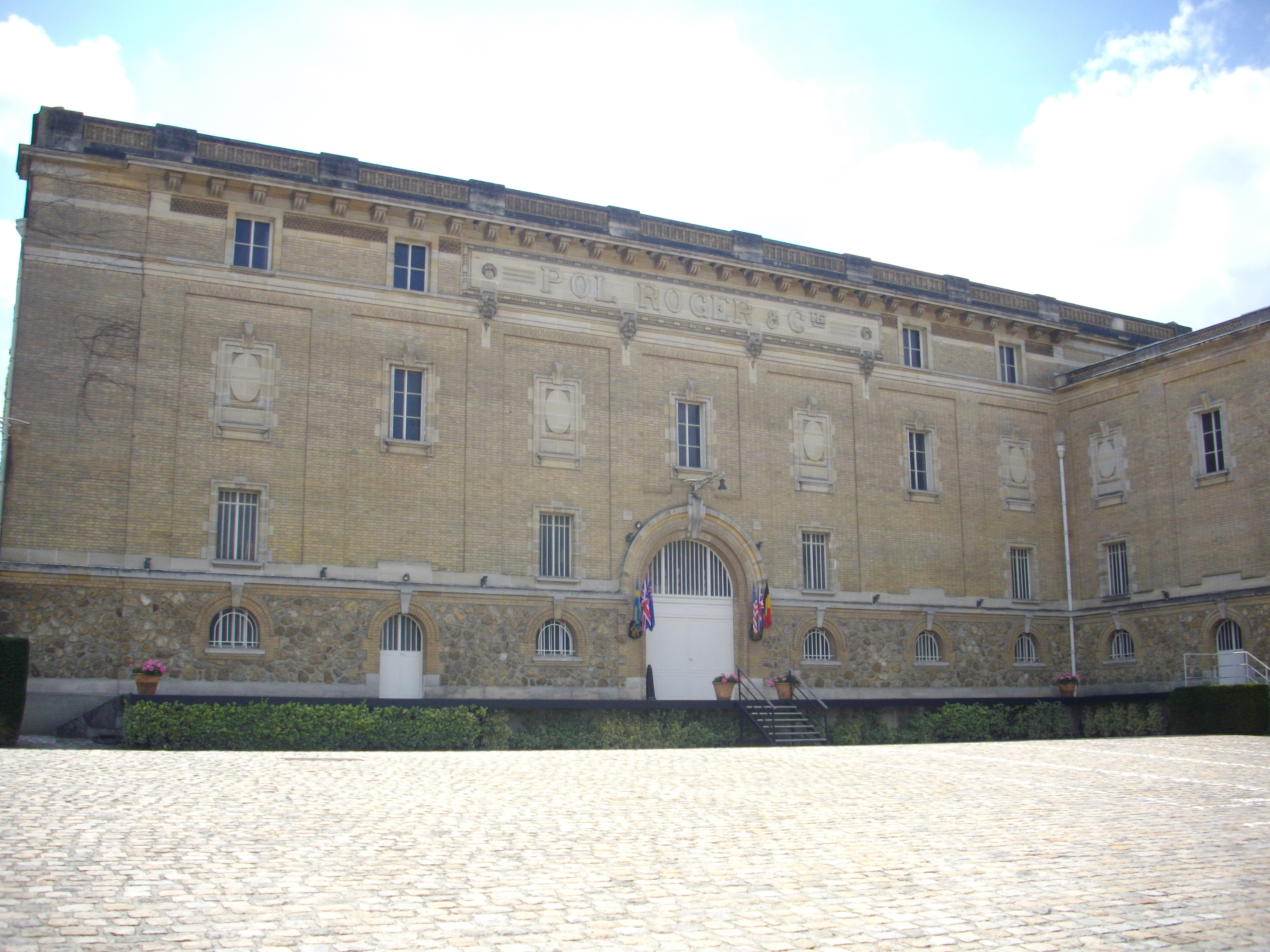 Pol Roger building, 34 Champagne avenue in Épernay (Marne, France)